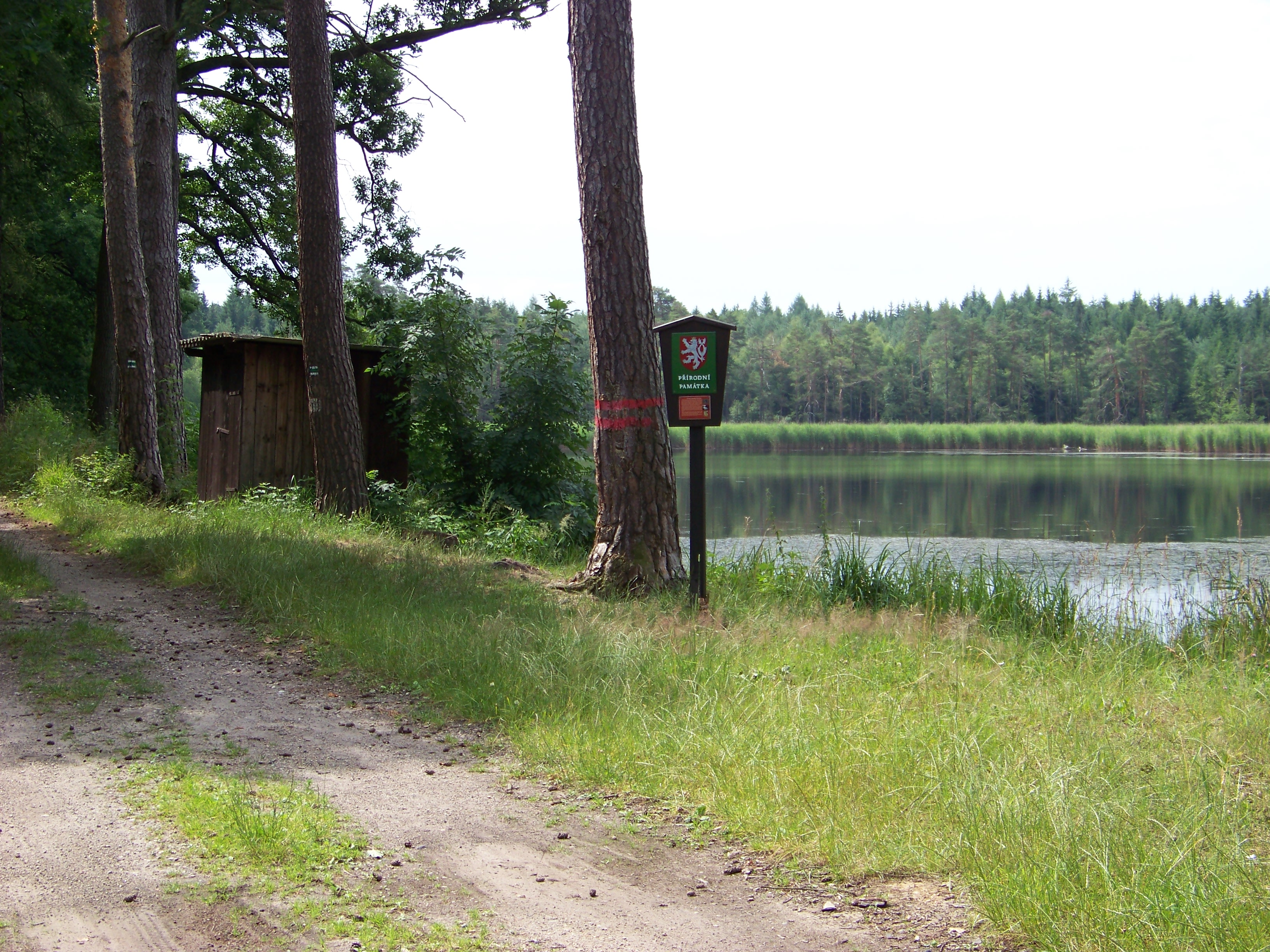 Horní Jelení, Pardubice District, Pardubice Region, the Czech Republic. Pětinoha pond.